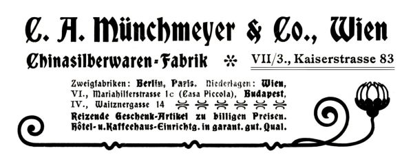 Advertisement of the Viennese silverware manufacturer C. A. Münchmeyer & Co., which existed from 1863-1902.